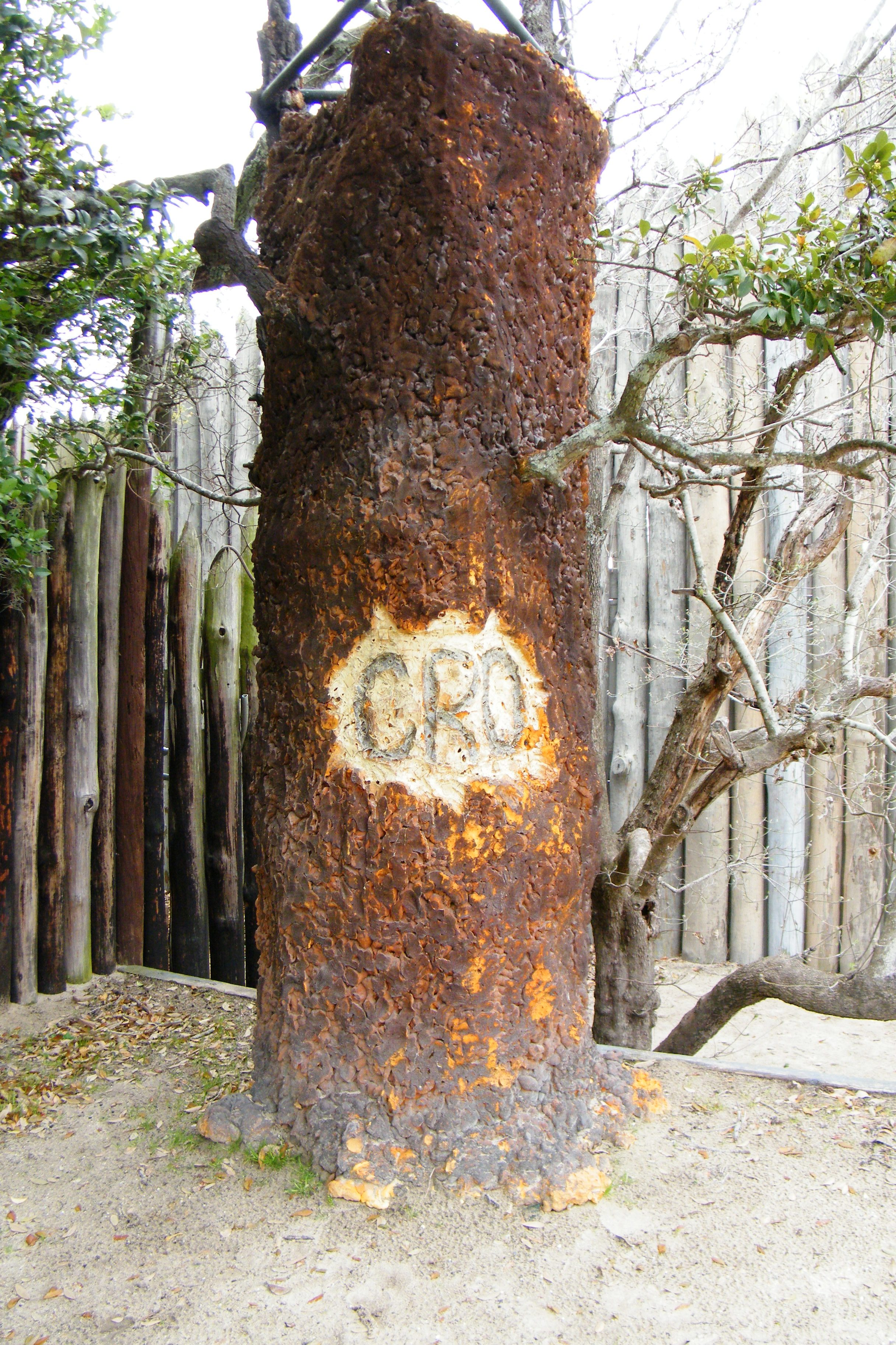 "CRO" written on a tree, part of the Lost Colony performance at Fort Raleigh National Historic Site.